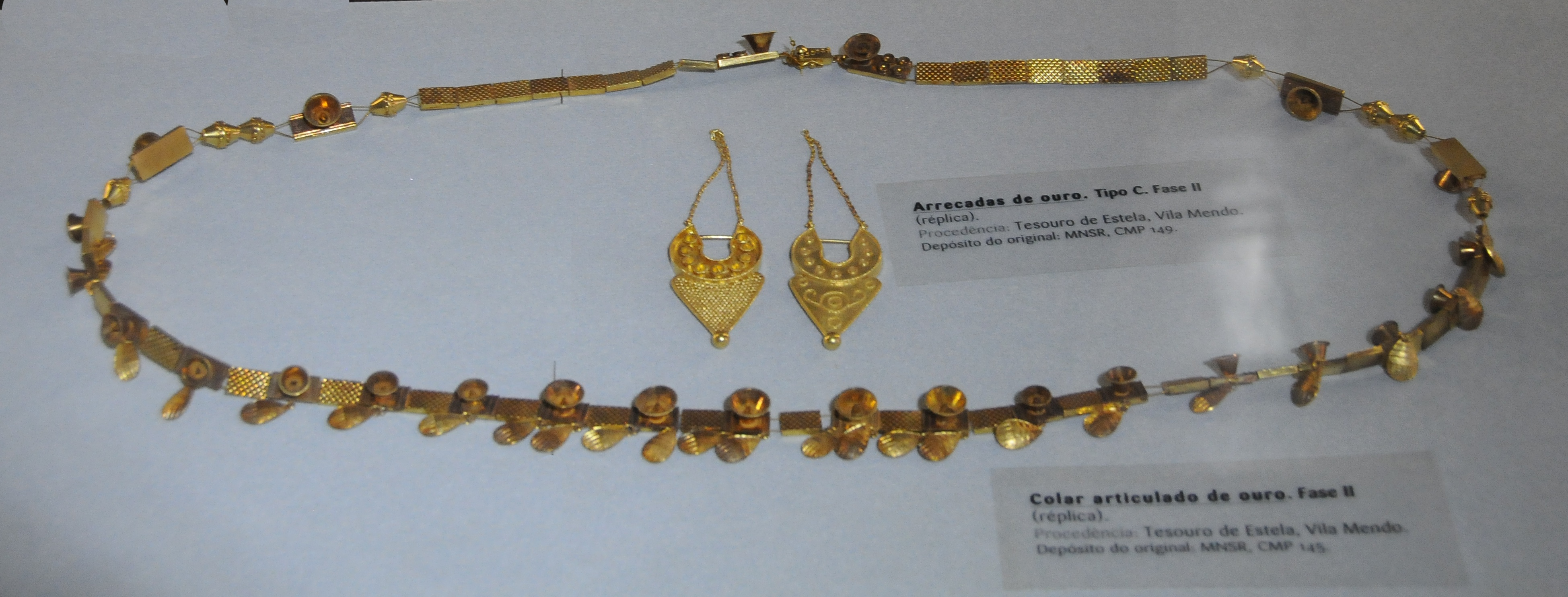 Museu Municipal de Etnografia e História da Póvoa de Varzim